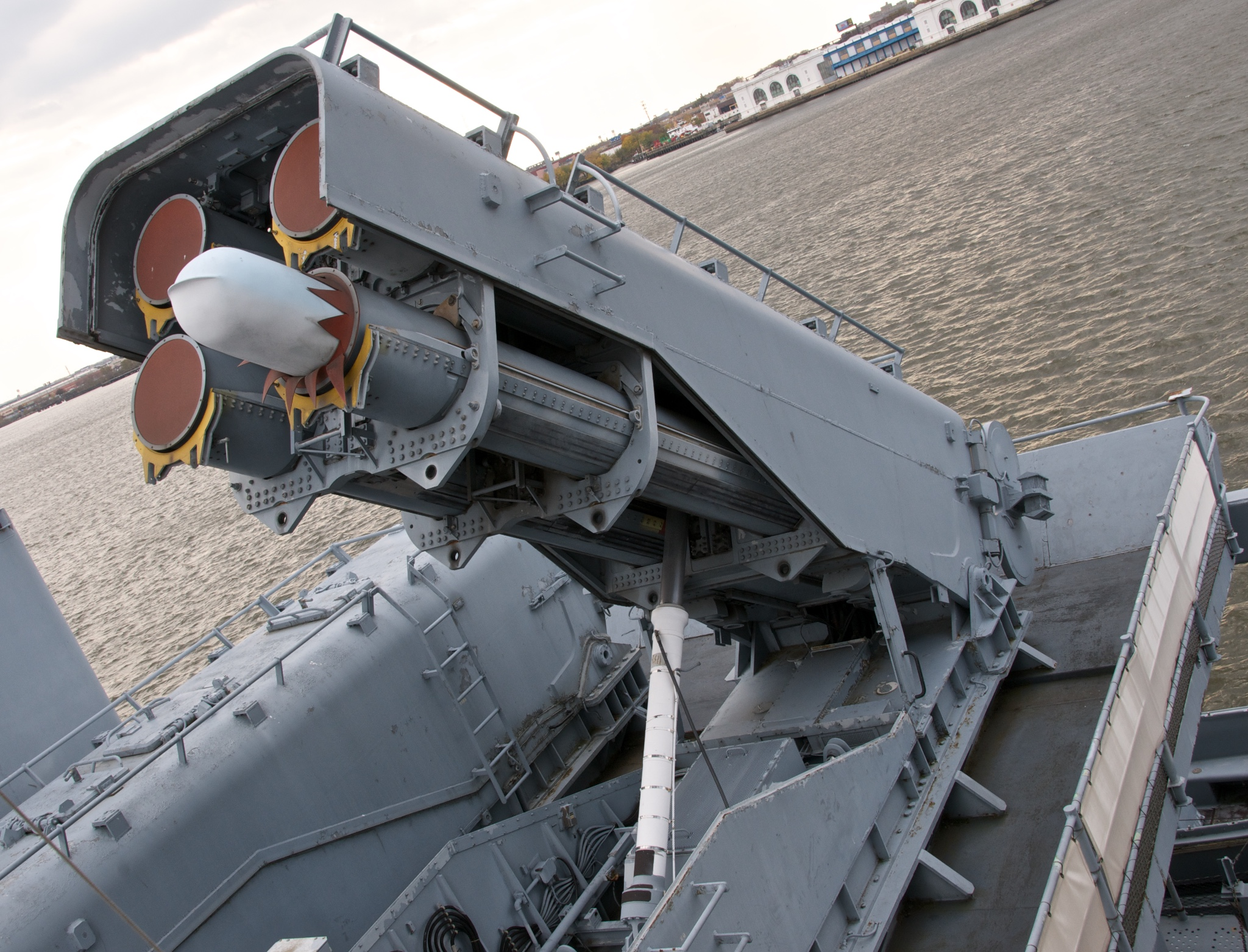 A Tomahawk cruise missile protrudes from an All-Up-Round (AUR) canister. Four canisters are contained in a Mark 143 Armored Box Launcher, which protected the missiles from damage prior to launch. This photo shows two of the four box launchers carried by the U.S.S. New Jersey. The New Jersey was the first operational warship to fire a Tomahawk cruise missile in 1983.